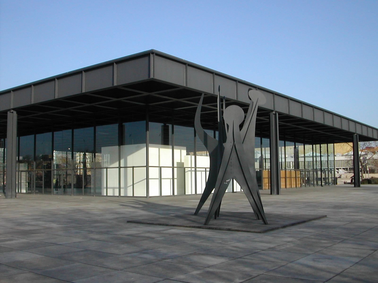 rear view